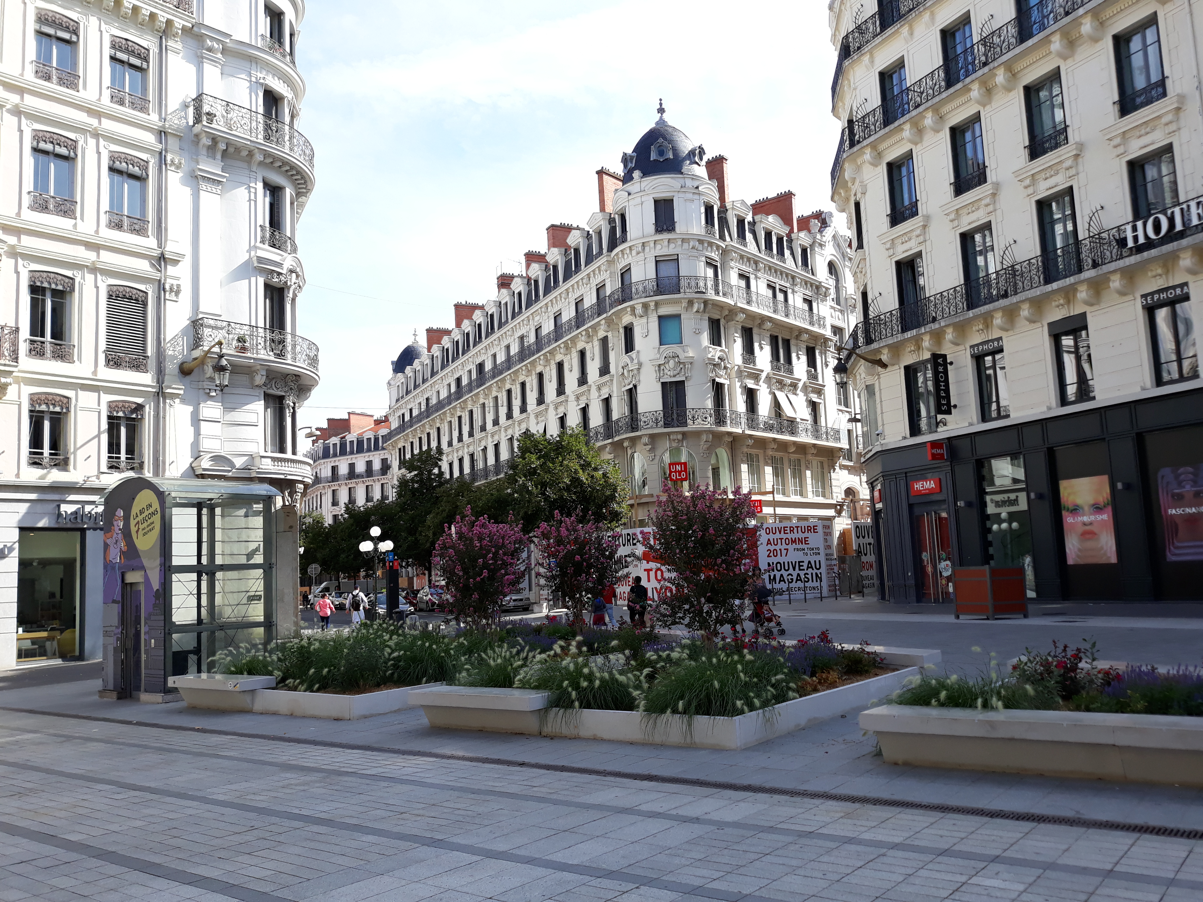 Lyon city central avenue, France